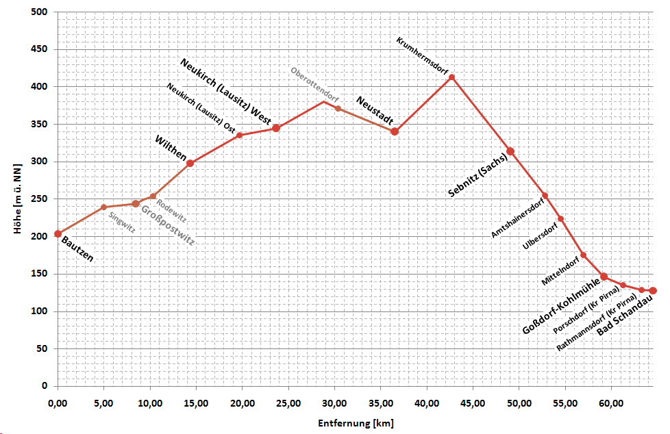 simplified altitude-profile of railway track Bautzen–Bad Schandau